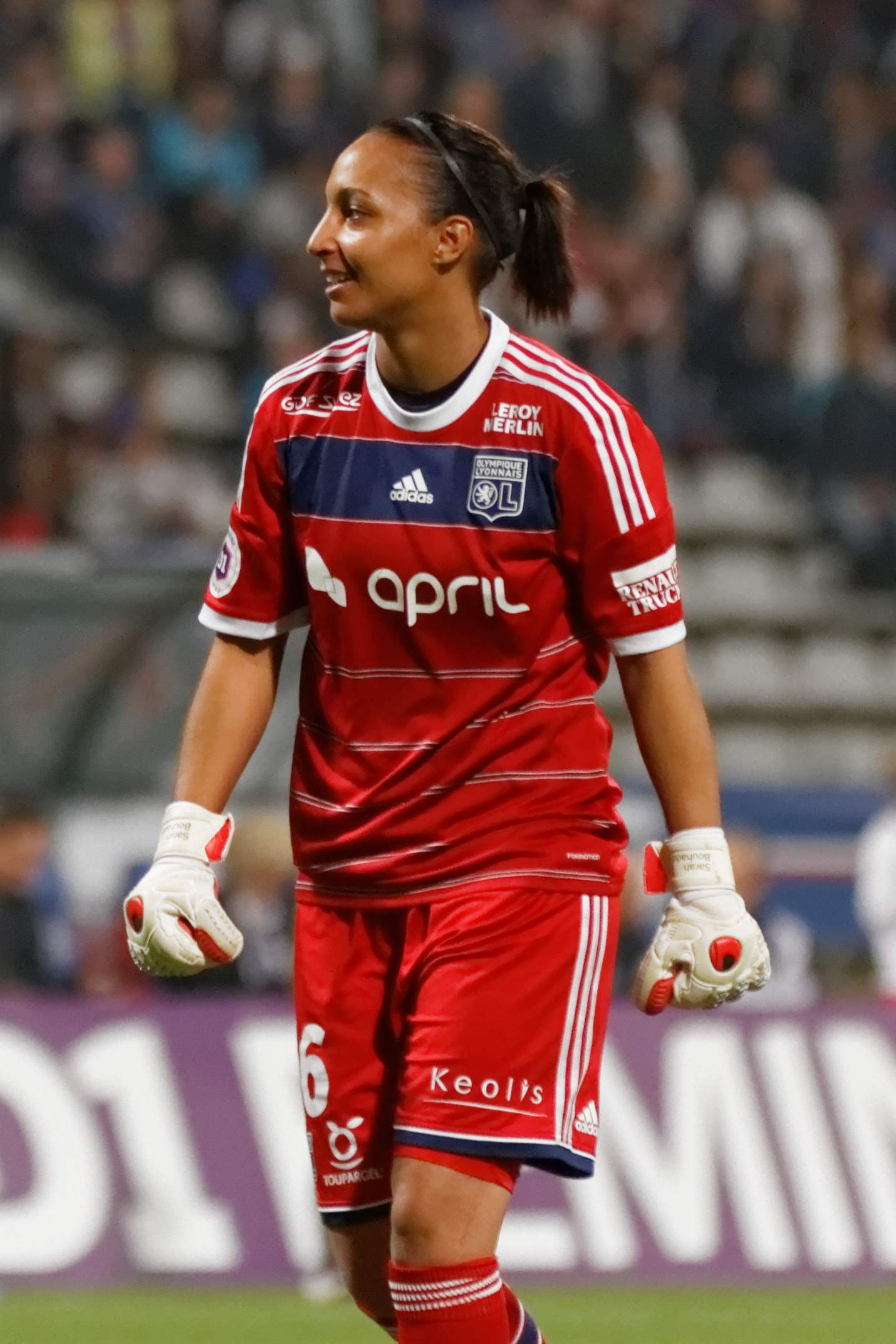 PSG-Lyon, September 29th, 2013.